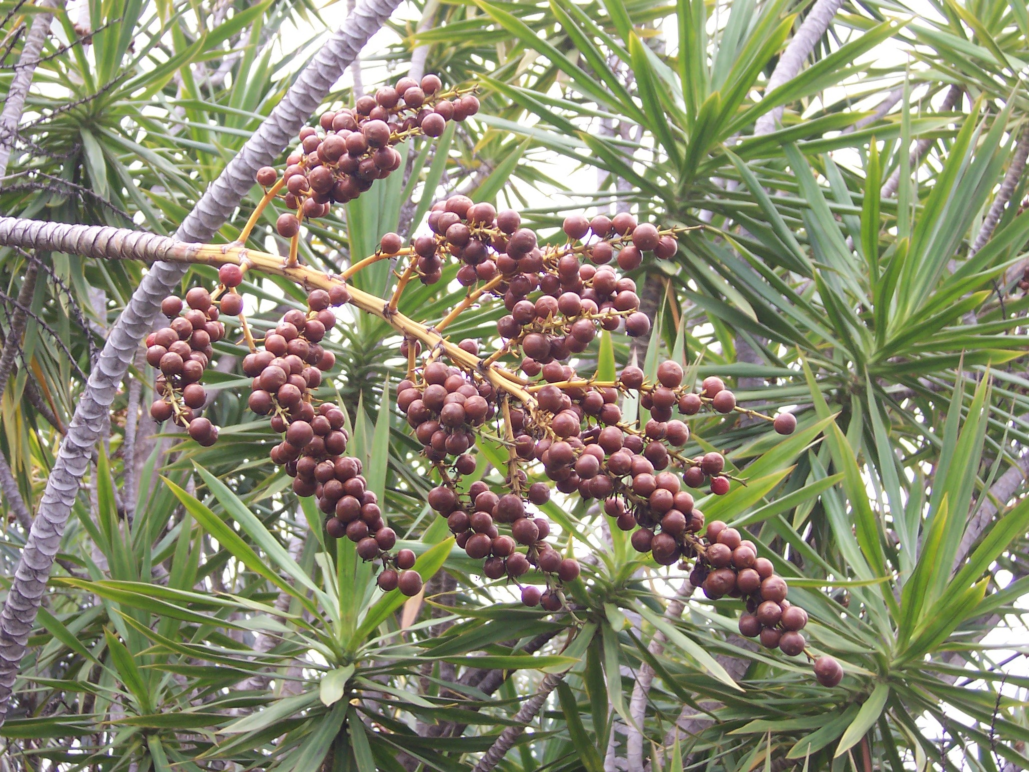 Fruits of Dracaena reflexa (photographied on Réunion island)